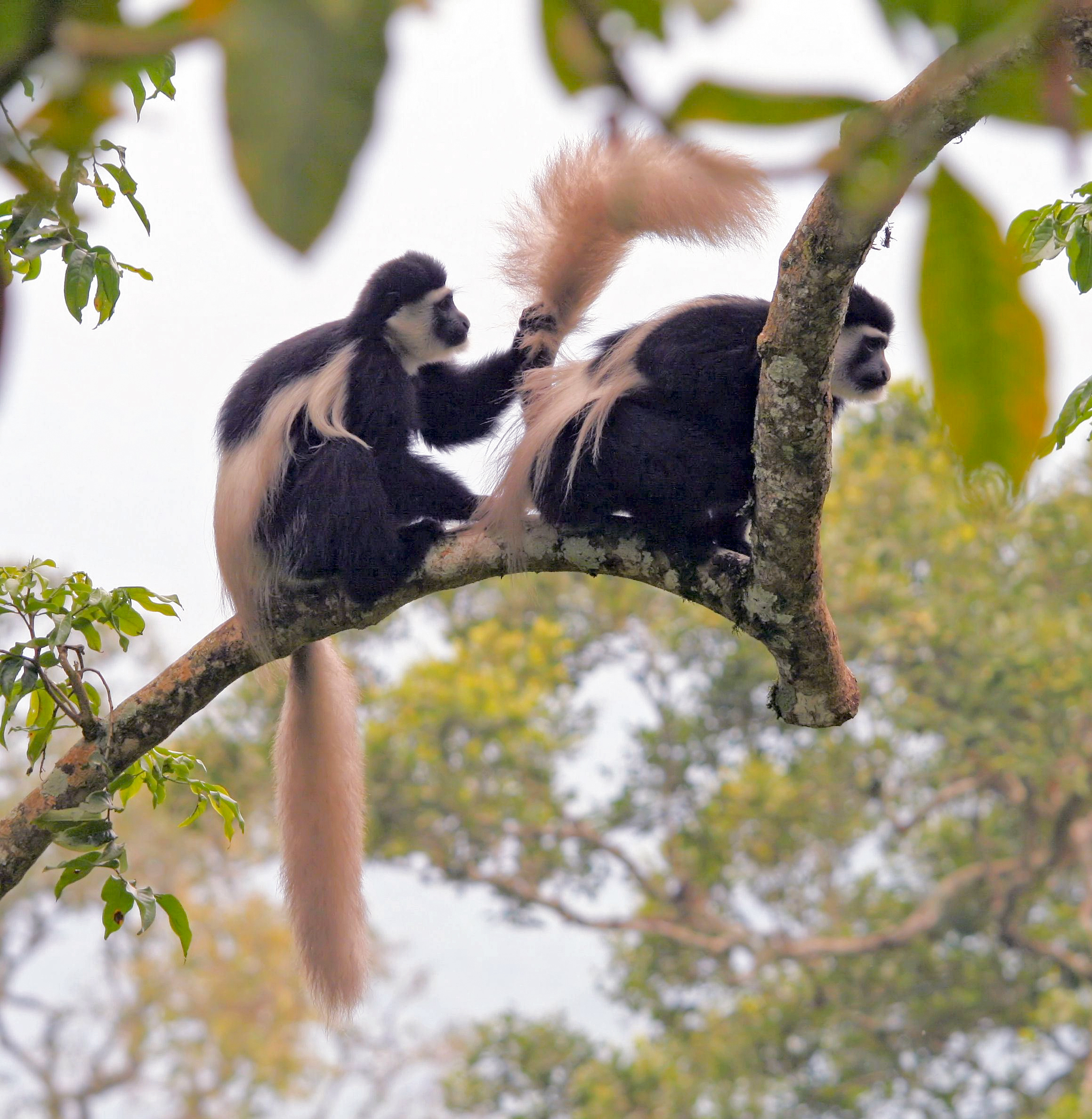 Mantled Guereza (Colobus guereza), picture taken at Arusha National Park, Tanzania